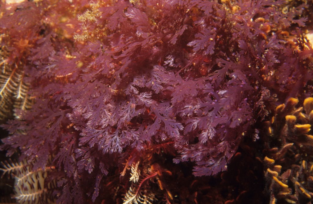 Red seaweed, Plocamium sp.